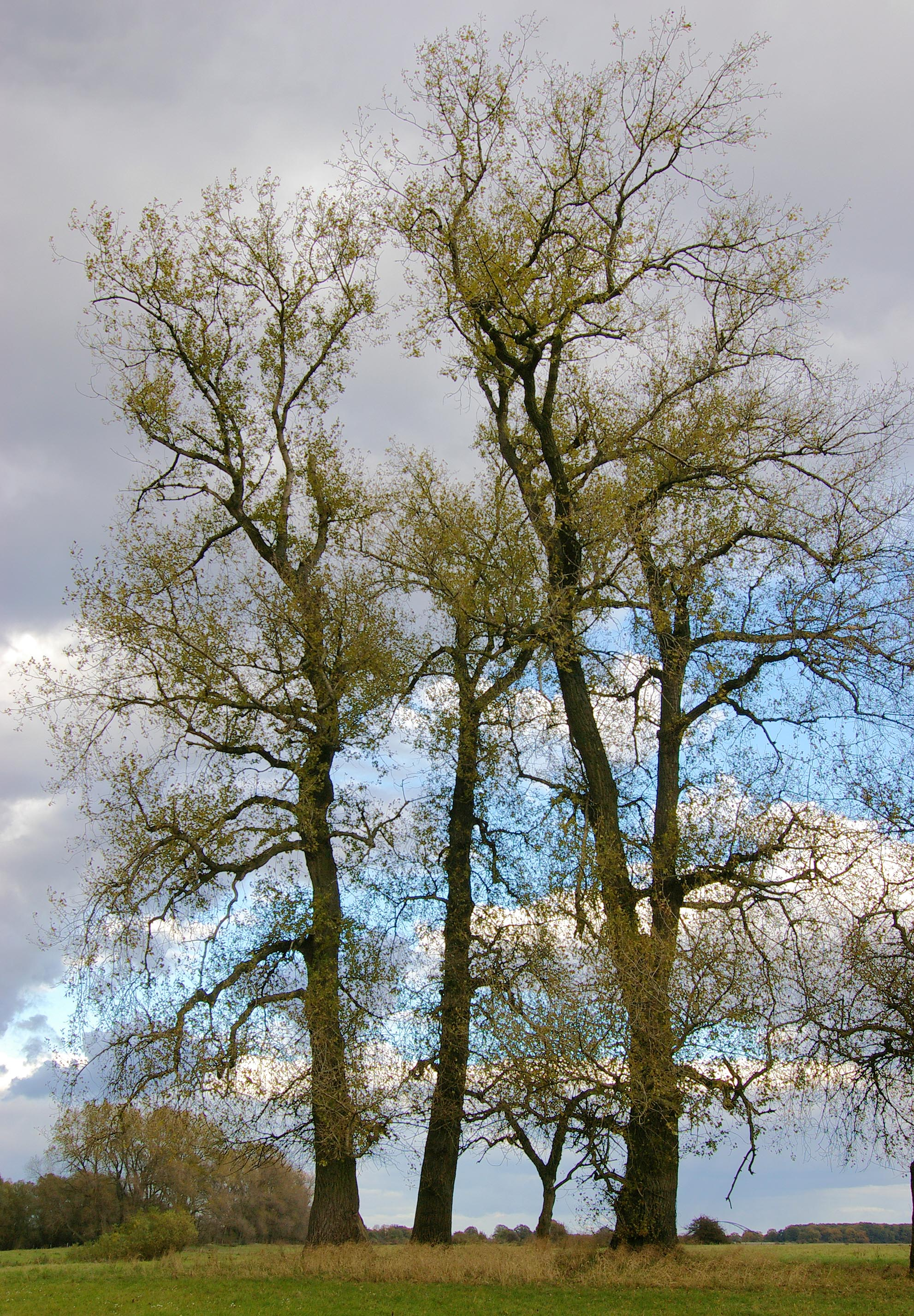 "Genuine" Populus nigra at the banks of the river Elbe.